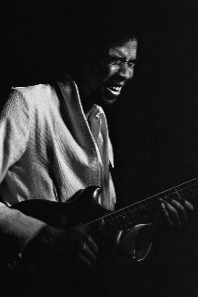 "Stanley Clarke, Jaap Eden Hal, Amsterdam 5-7-1979 touring with Jeff Beck"